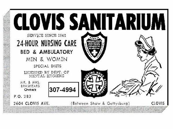 An old advertisement of the sanitarium that was operating on the Wolfe Manor property